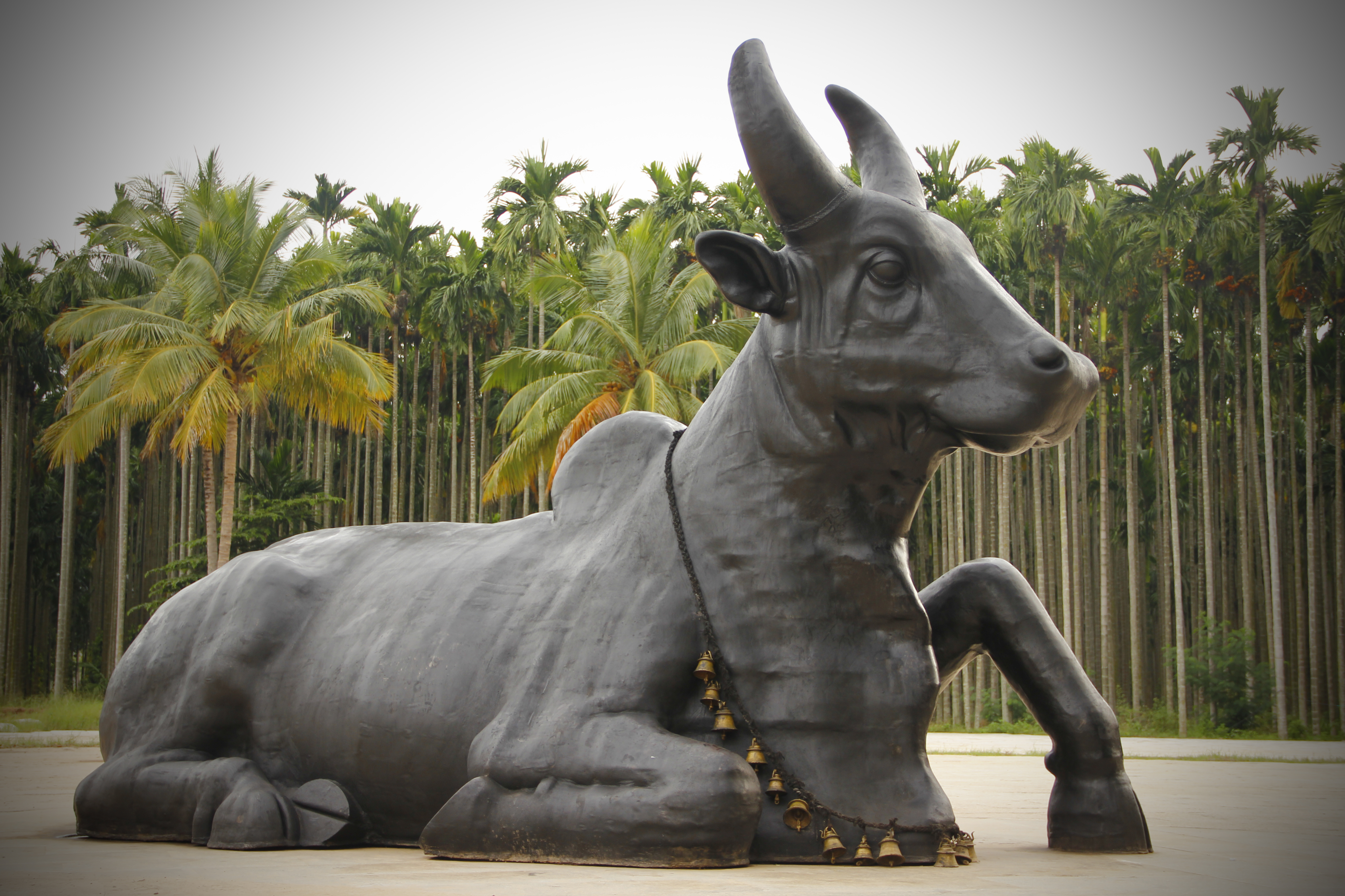 The Nandi Bull statue seen in dyanalinga yogic temple, velliangiri, coimbatore, 2010.